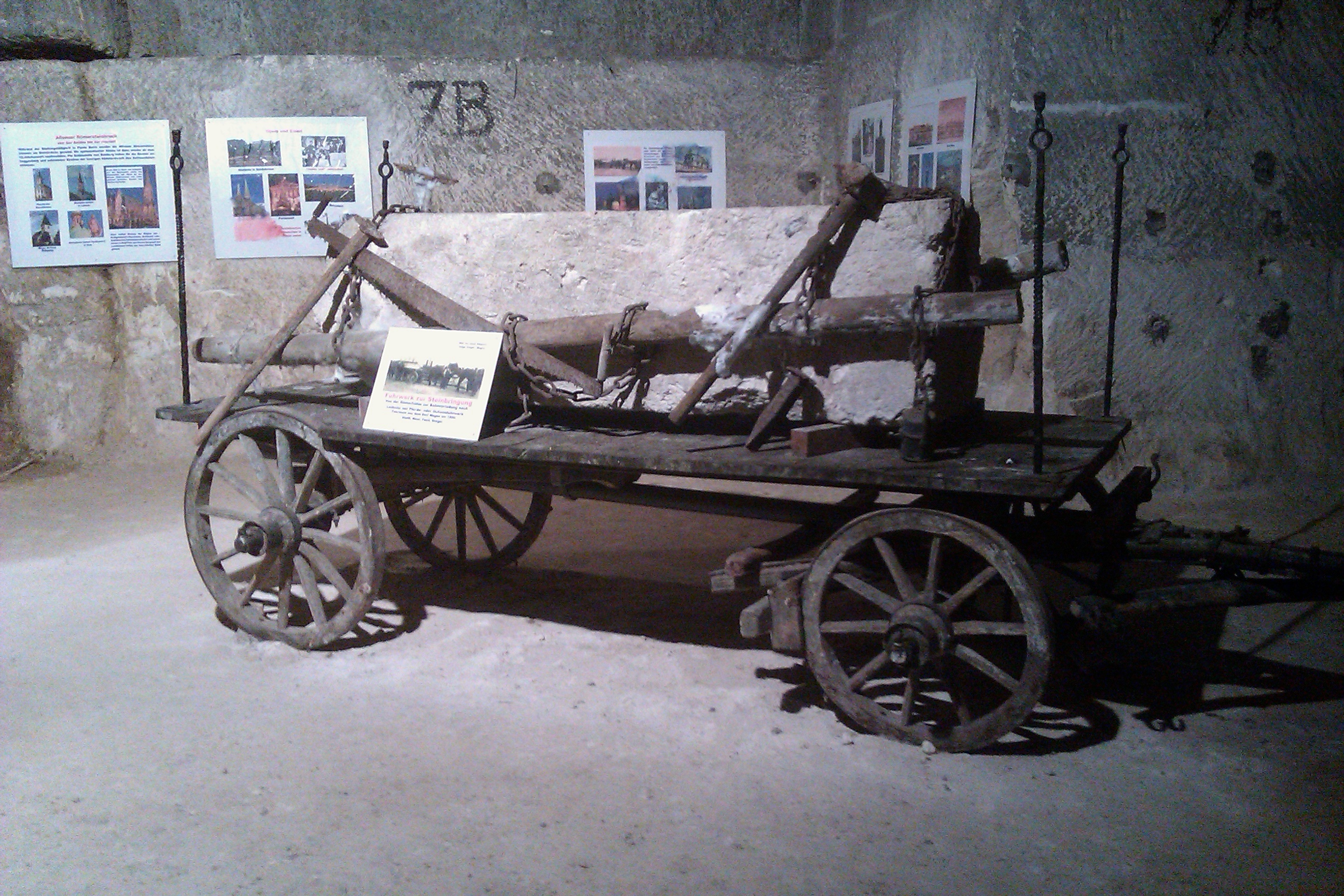 Römersteinbruch Aflenz, historical cart (reproduction) to transport stone